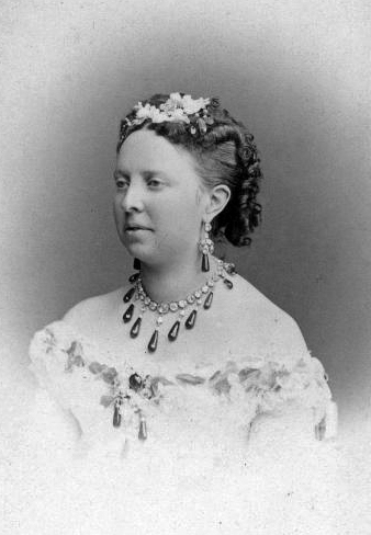 source : Royalty Digest collection